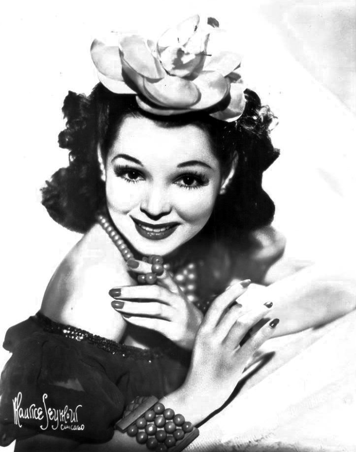 Publicity photo of actress Armida Vendrell.